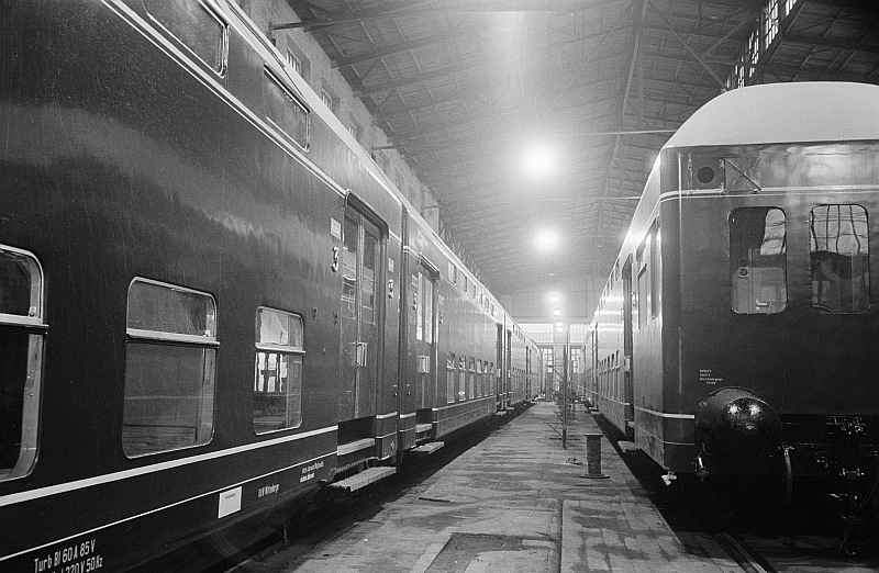 Original image description from the Deutsche Fotothek Blick in eine Werkhalle mit Doppelstockwaggons